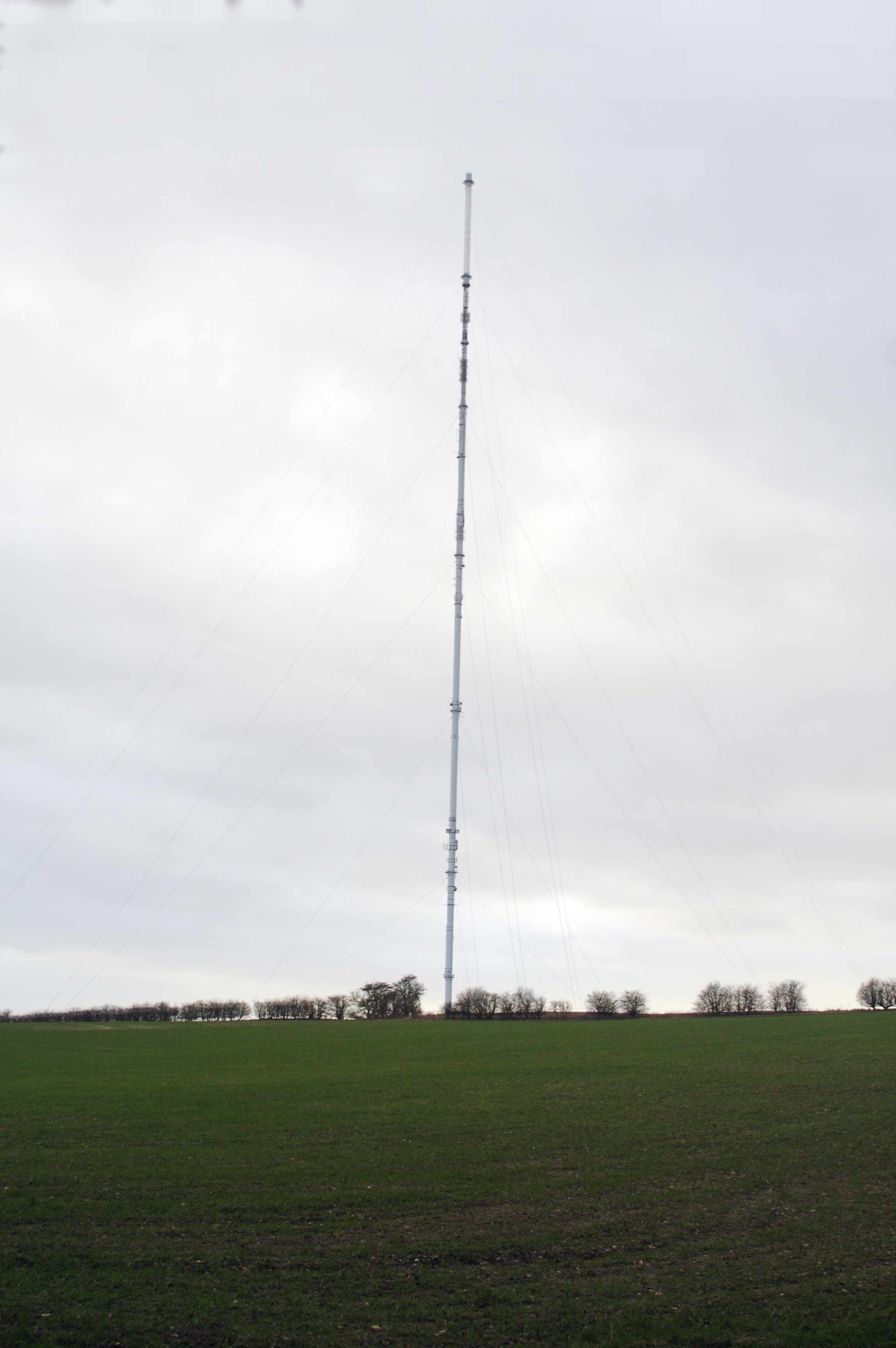 Belmont Transmitter